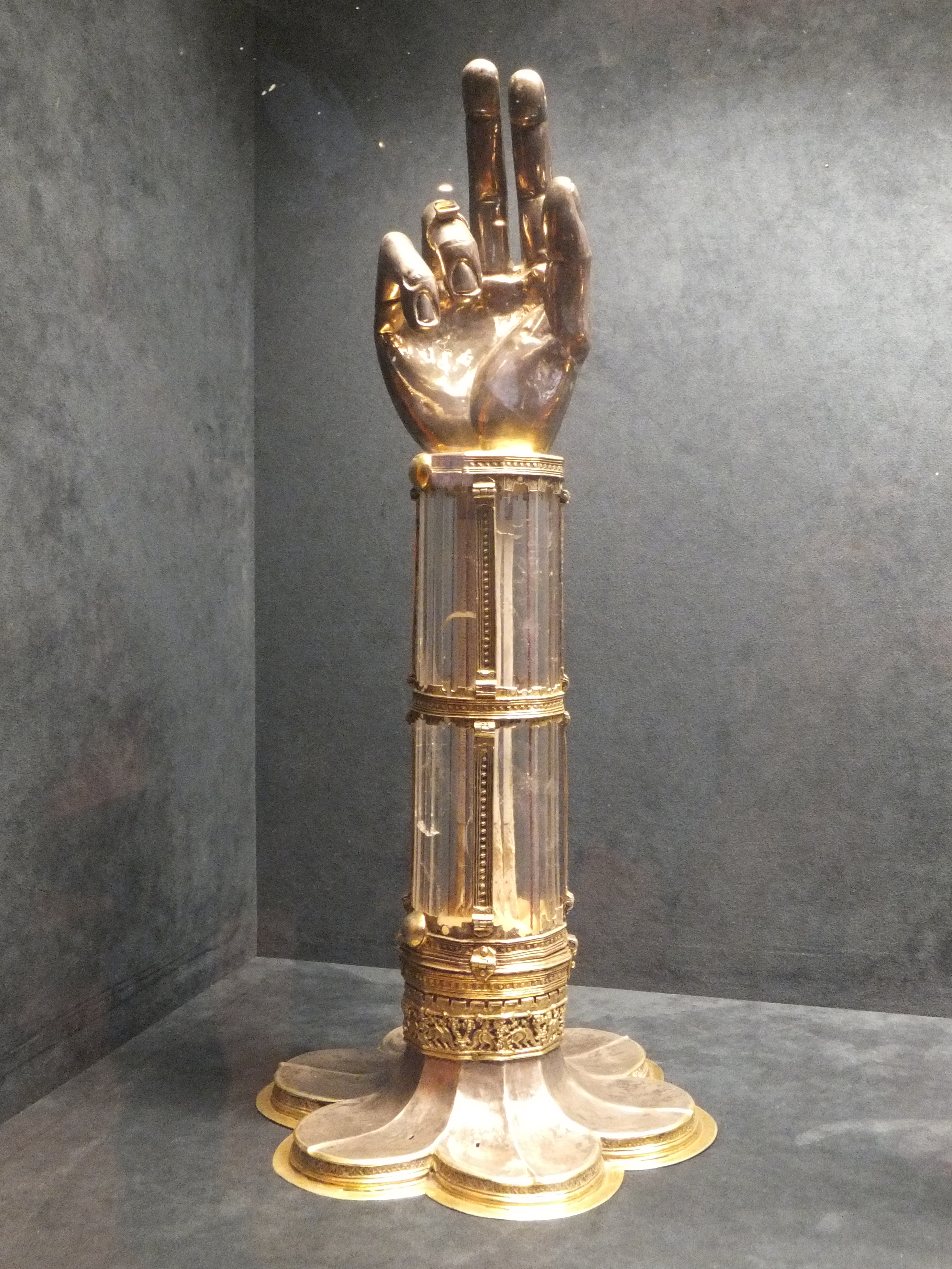 Trento, Museo Diocesano - Reliquiary in the shape of an arm, containing the relics of saint Vigilius of Trent This is a photo of a monument which is part of cultural heritage of Italy.